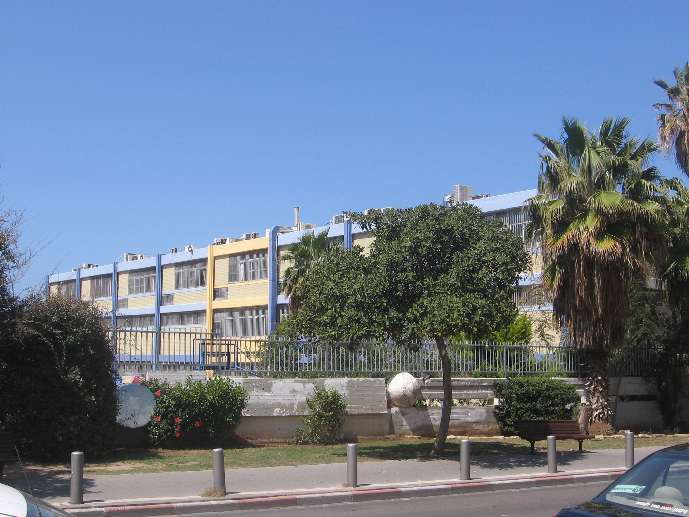 Irony Hey high school in Tel Aviv.